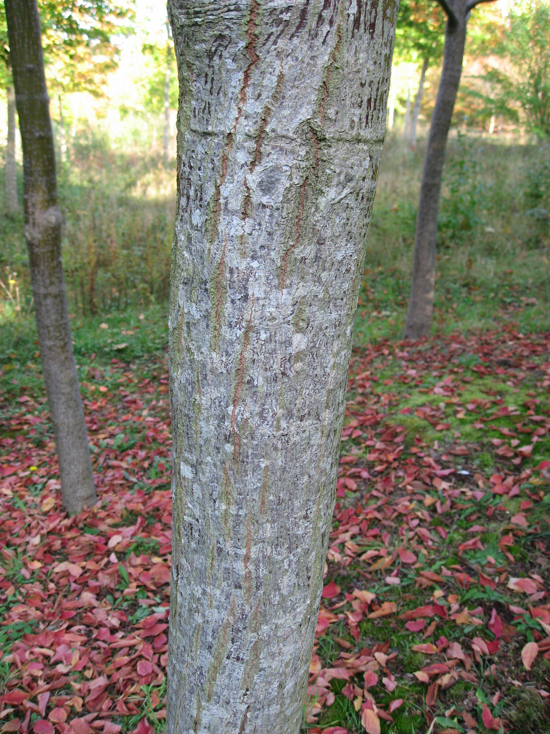 Acer rufinerve in Arboretum de La Roche-Guyon Map: 49° 5' 56" N 1° 38' 23" E